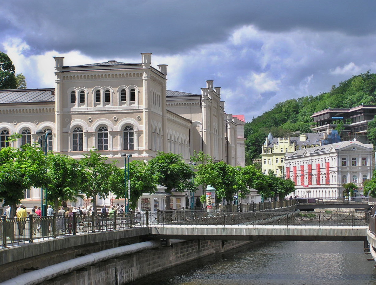 Karlovy Vary (Karlsbad) Bad III